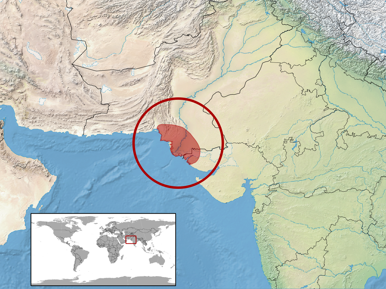 geographic distribution of Ophiomorus raithmai